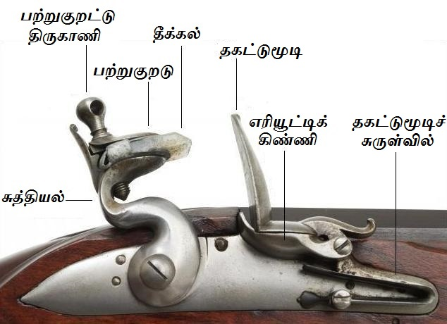 Flintlock Mechanism